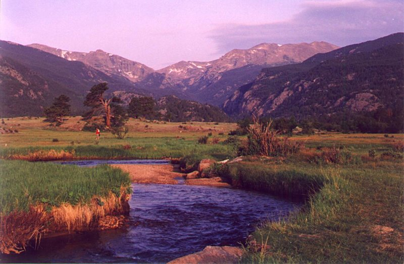 Moraine Park and the headwaters of the Big Thompson River in Rocky Mountain National Park. Moraine Park is on the east side of the park and of the continental divide, near the town of Estes Park. This region has a number of areas call "parks", which refer to open, level areas in the mountains, usage which comes from the French word parque. The names of these areas predate the establishment of the national park and are unrelated to the use of the word "park" in that context.